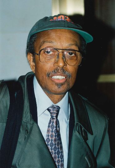 From Wash. D.C. 1998